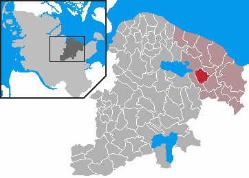 This map shows the area of the Gemeinde (municipality) Klamp in the Kreis (district) Plön, Schleswig-Holstein, Germany.